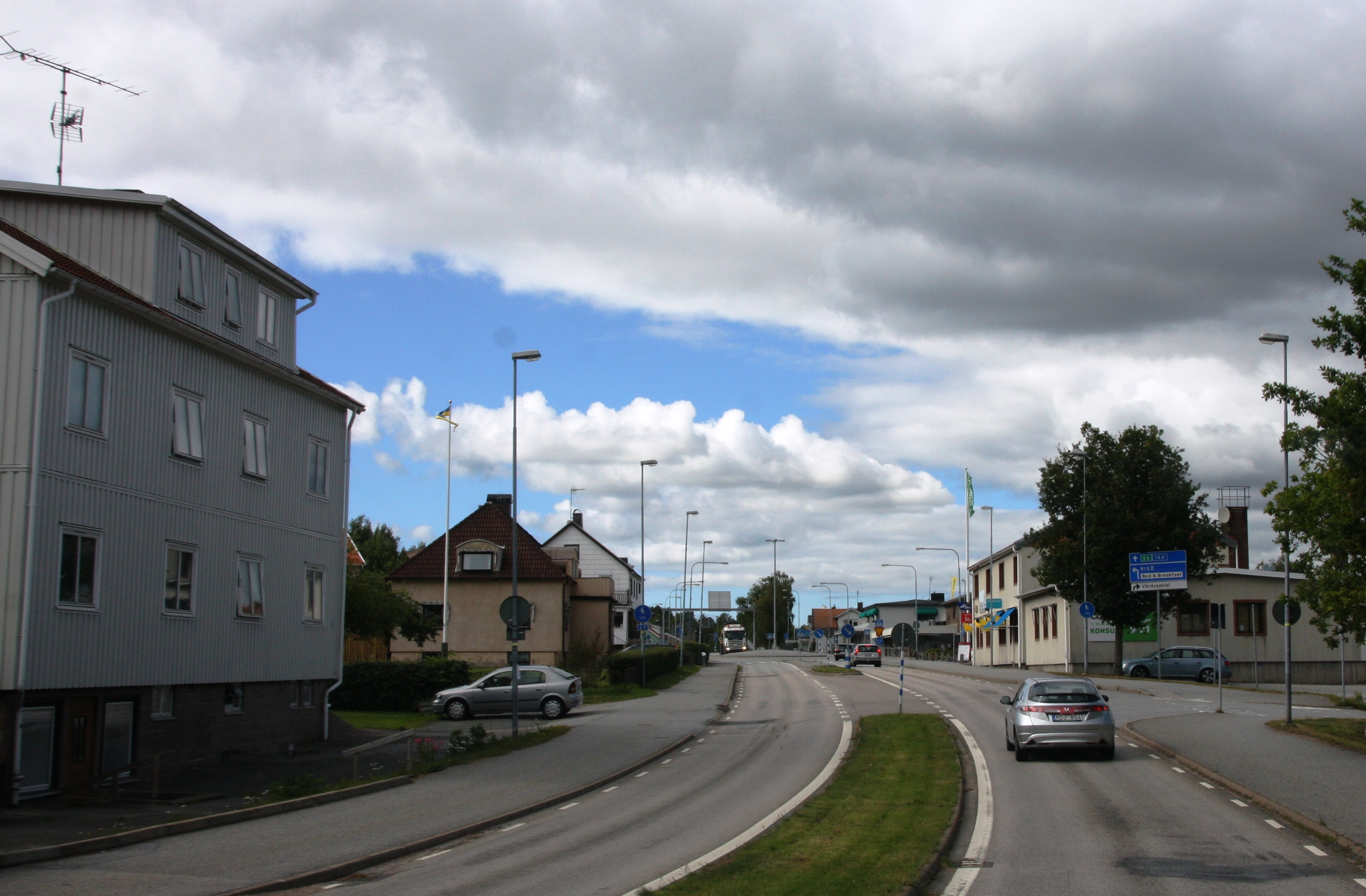 Image from the town of Brastad in Lysekil municipality, western Sweden.